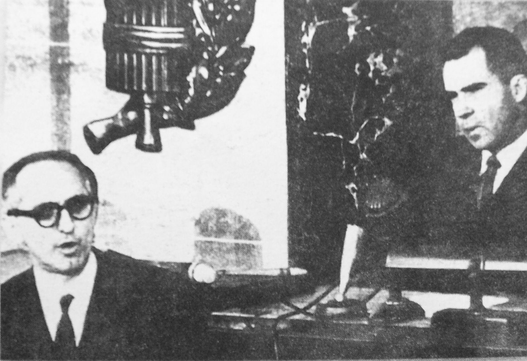 It is a photo of the Argentine president Arturo Frondizi (left side) with the vice president Nixon (right), in the congress of the United States.